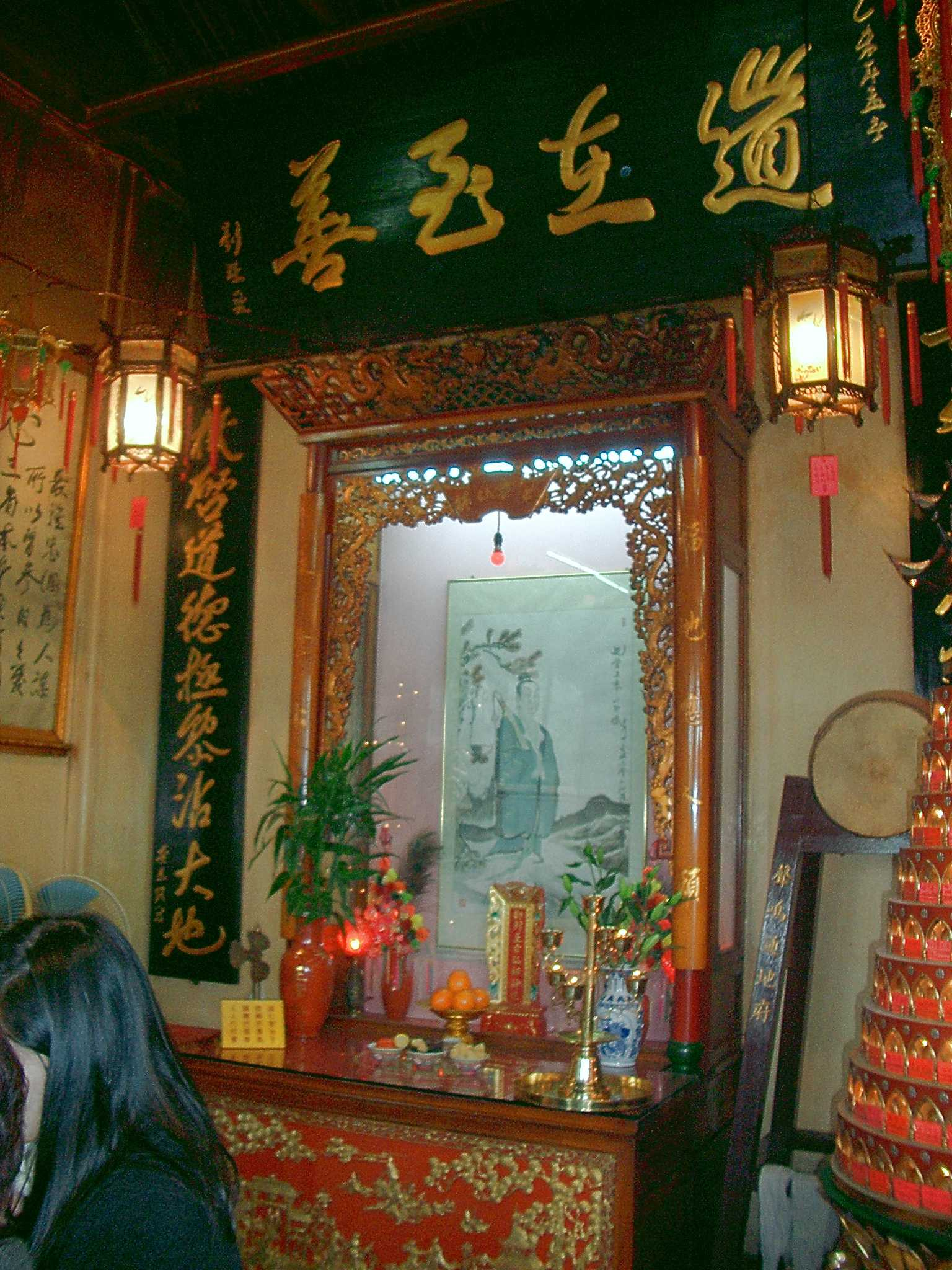 Wong Cheung Altar, Yuen Ching Kwok, Ching Cheung Road, Hong Kong